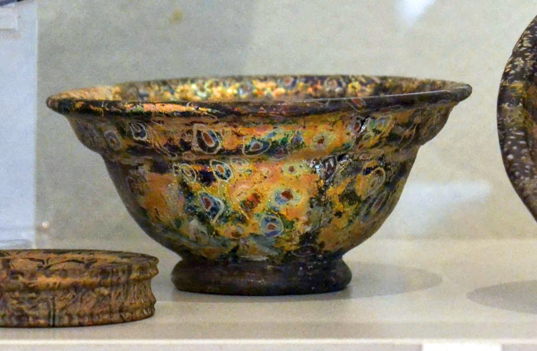 Roman Acetabulum; Millefiori Glas, made between 1st century B.C. and 1st century A.C.; eastern mediteranean area; Antikensammlung Berlin (Inv.-Nr. 30219,114)